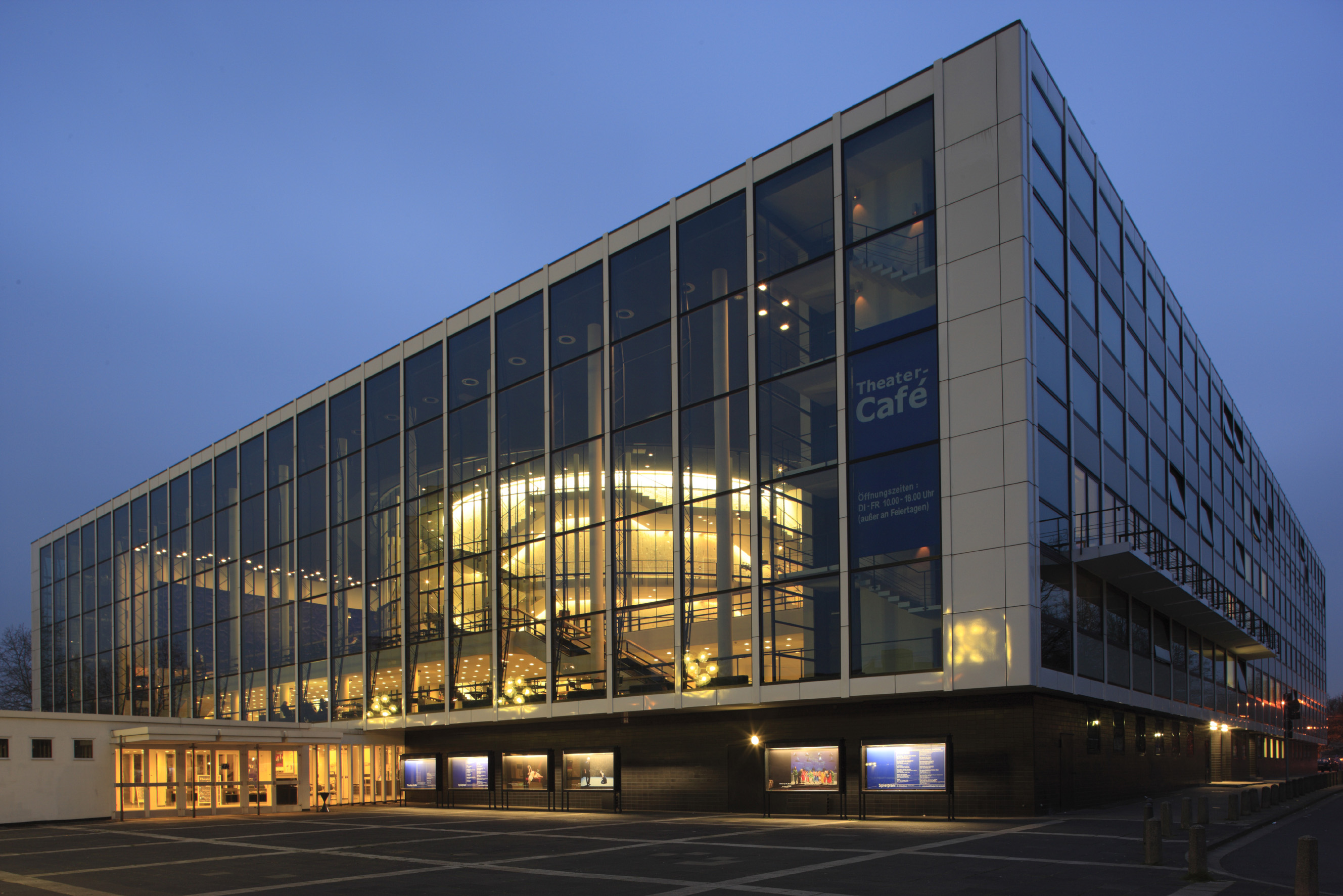 Musiktheater im Revier (MiR), an opera house in Gelsenkirchen, Germany. Designed by the architects group Werner Ruhnau, Harald Deilmann, Ortwin Rave and Max von Hausen. Artwork in the interior of the building includes: a blue relief by Yves Klein and mobiles sculpted by Jean Tinguely. The theatre opened in December of 1959.